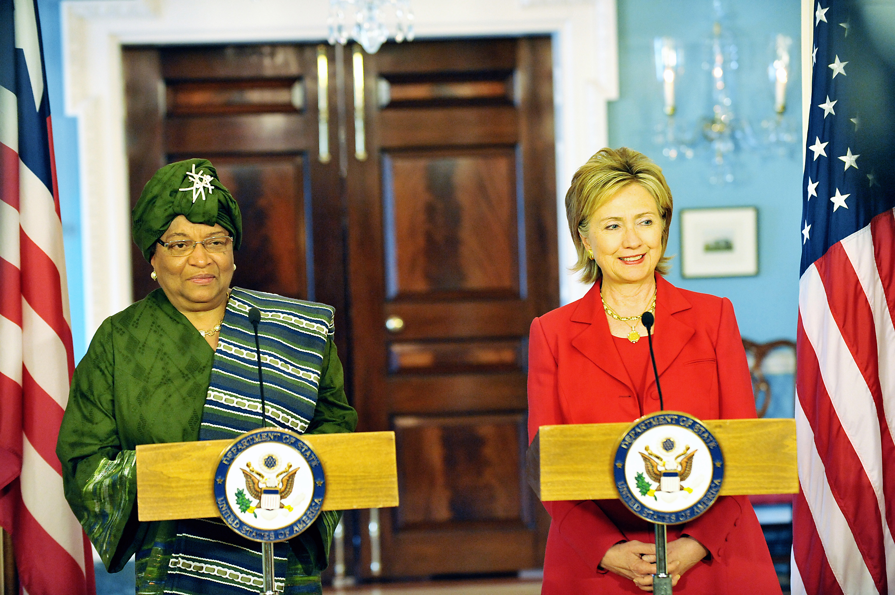 U.S. Secretary of State Hillary Rodham Clinton meets with Liberian President Ellen Johnson-Sirleaf at the U.S. Department of State in Washington, DC April 21, 2009. State Department photo